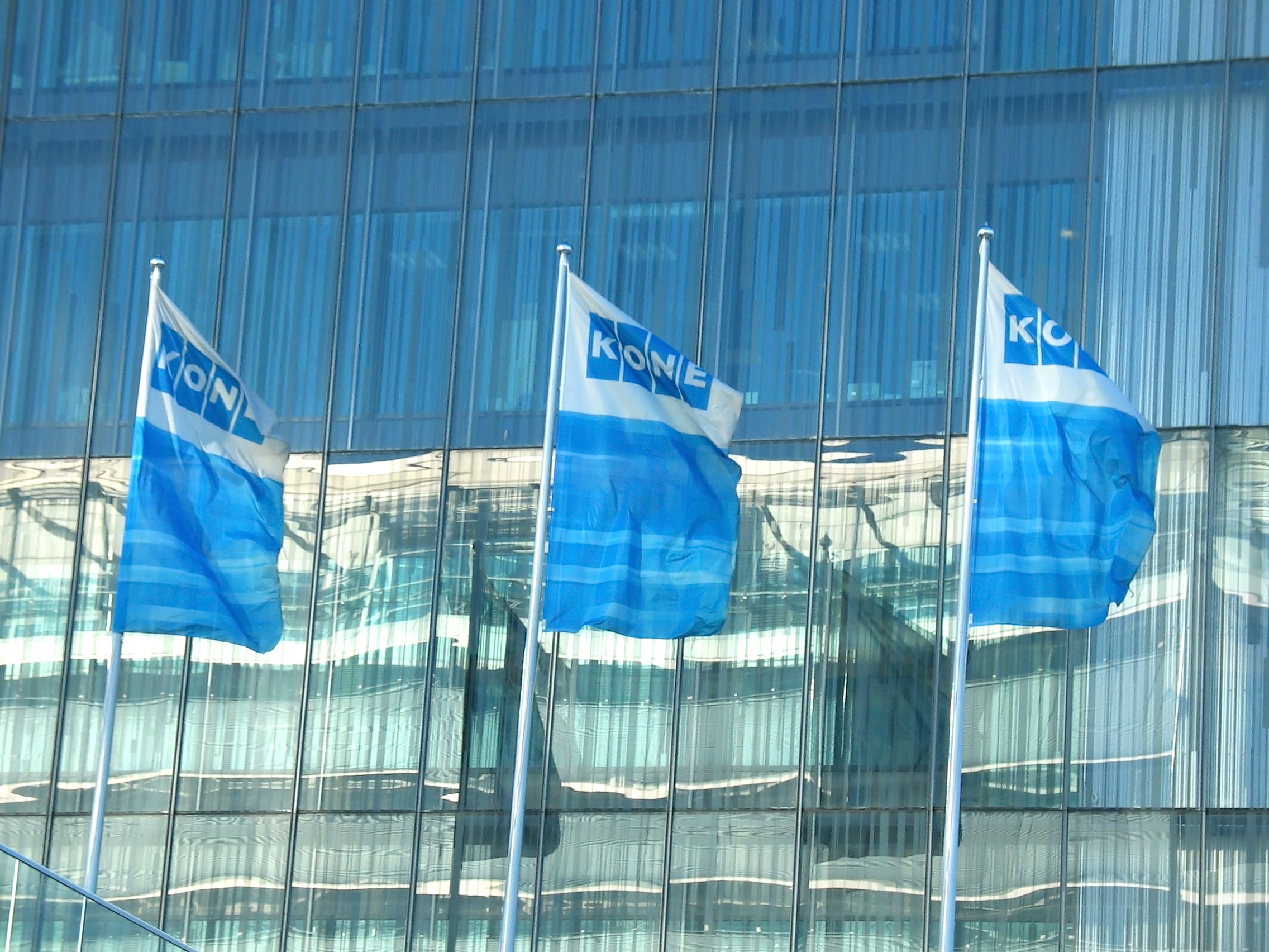 Flags at KONE corporate headquarters in Keilalahti, Espoo, Finland (2003).